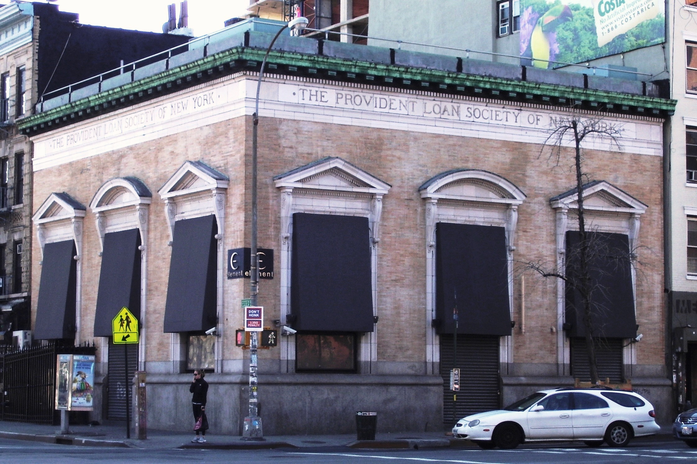 223 East Houston Street at the corner of Essex Street in the Lower East Side neighborhood of Manhattan, New York City, was built in 1920 for the Provident Loan Society of New York. It was owned for a time by the artist Jasper Johns, who used it as studio and living space. Today it is Element night club and the Vault lounge.